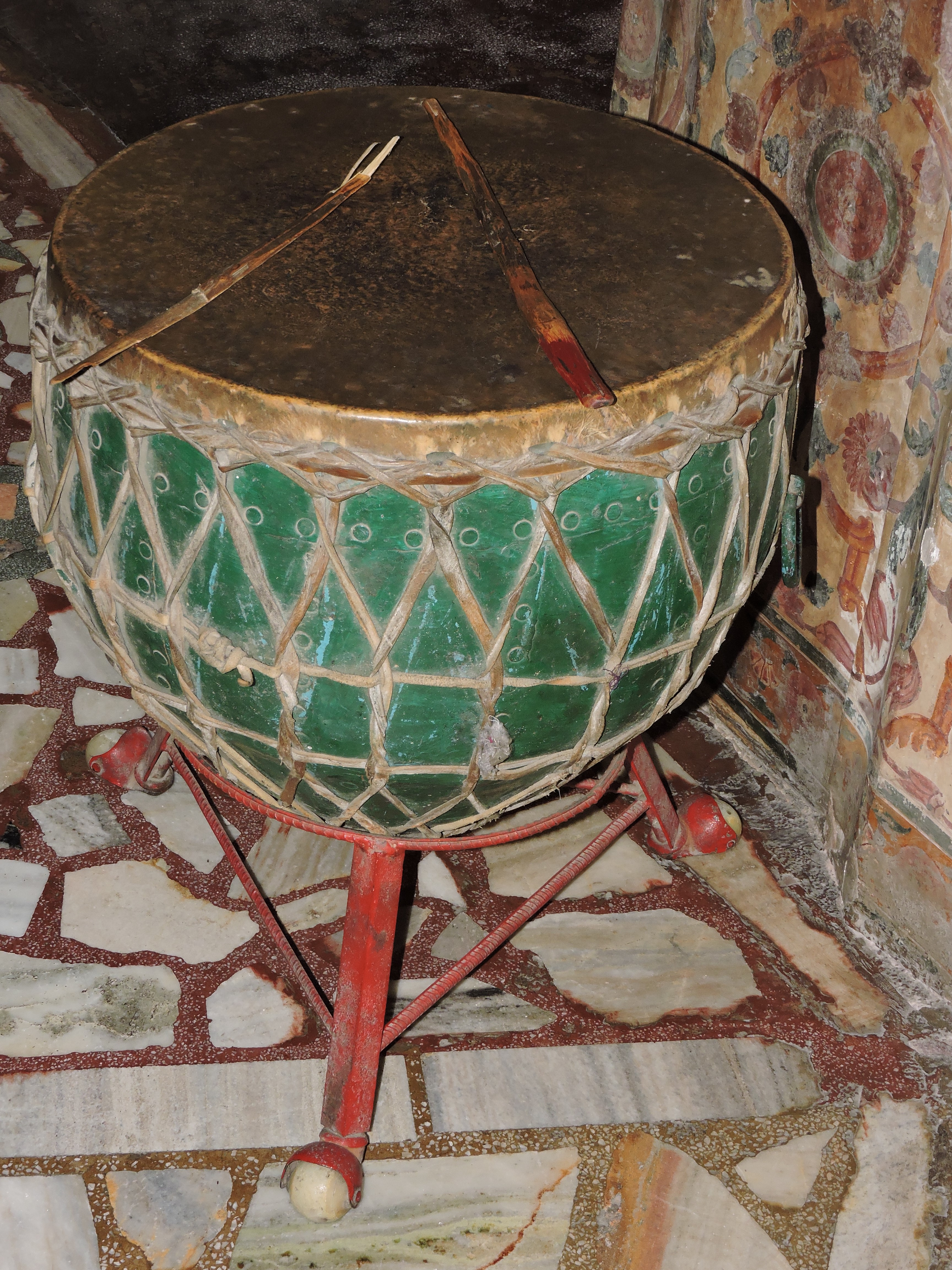 Nagarra , the instrument used in religious places of Hindu and Sikhs in India